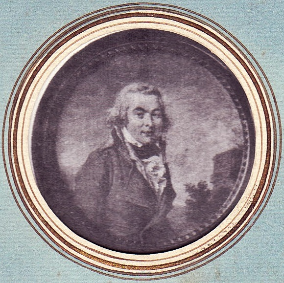 Johann Nepomuk van Recum (1753-1801), letzter Inhaber der Frankenthaler Porzellanmanufaktur, Gründer der Steingutfabrik Grünstadt.